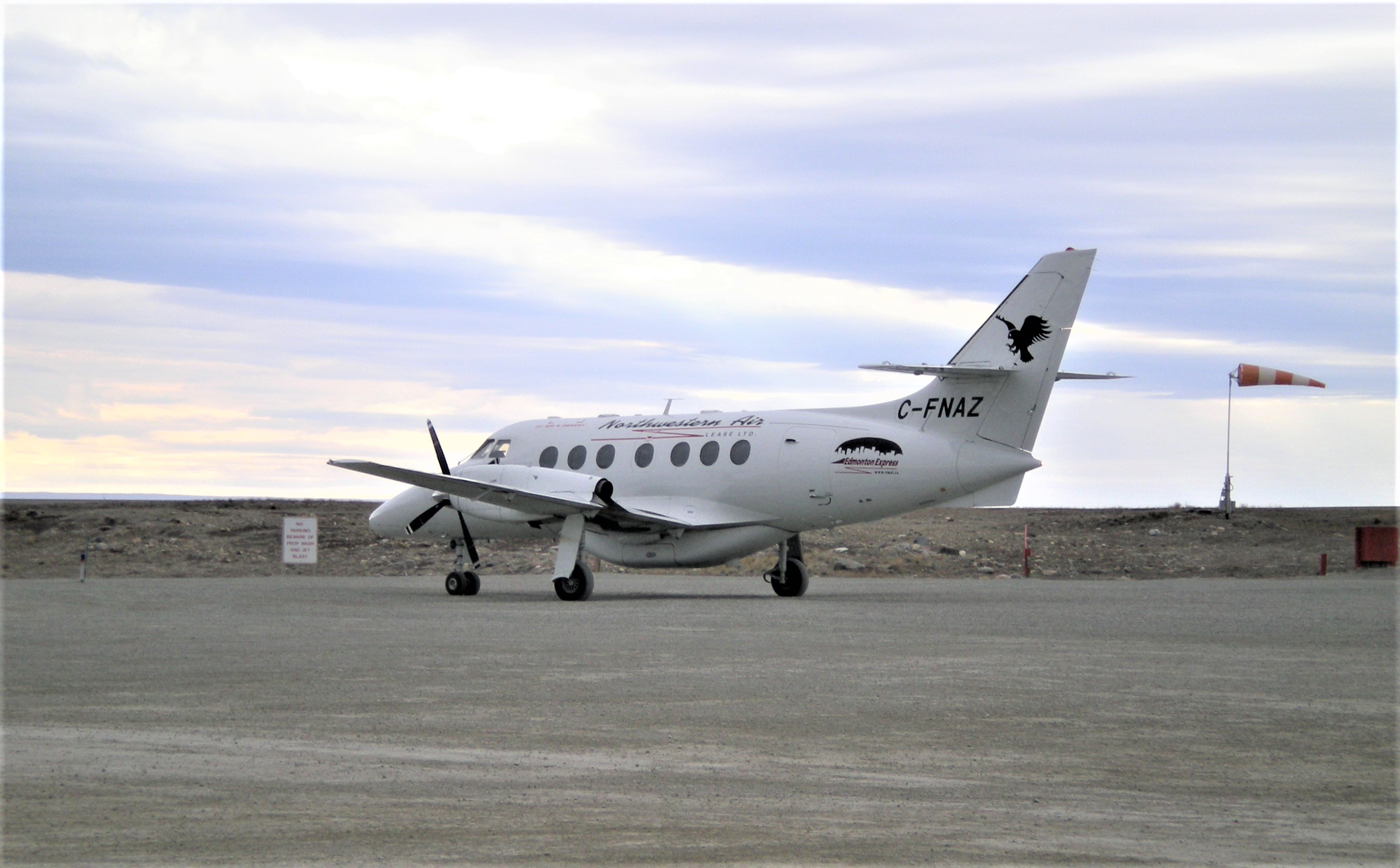 A Northwestern Air Handley Page Jetstream (JS32).